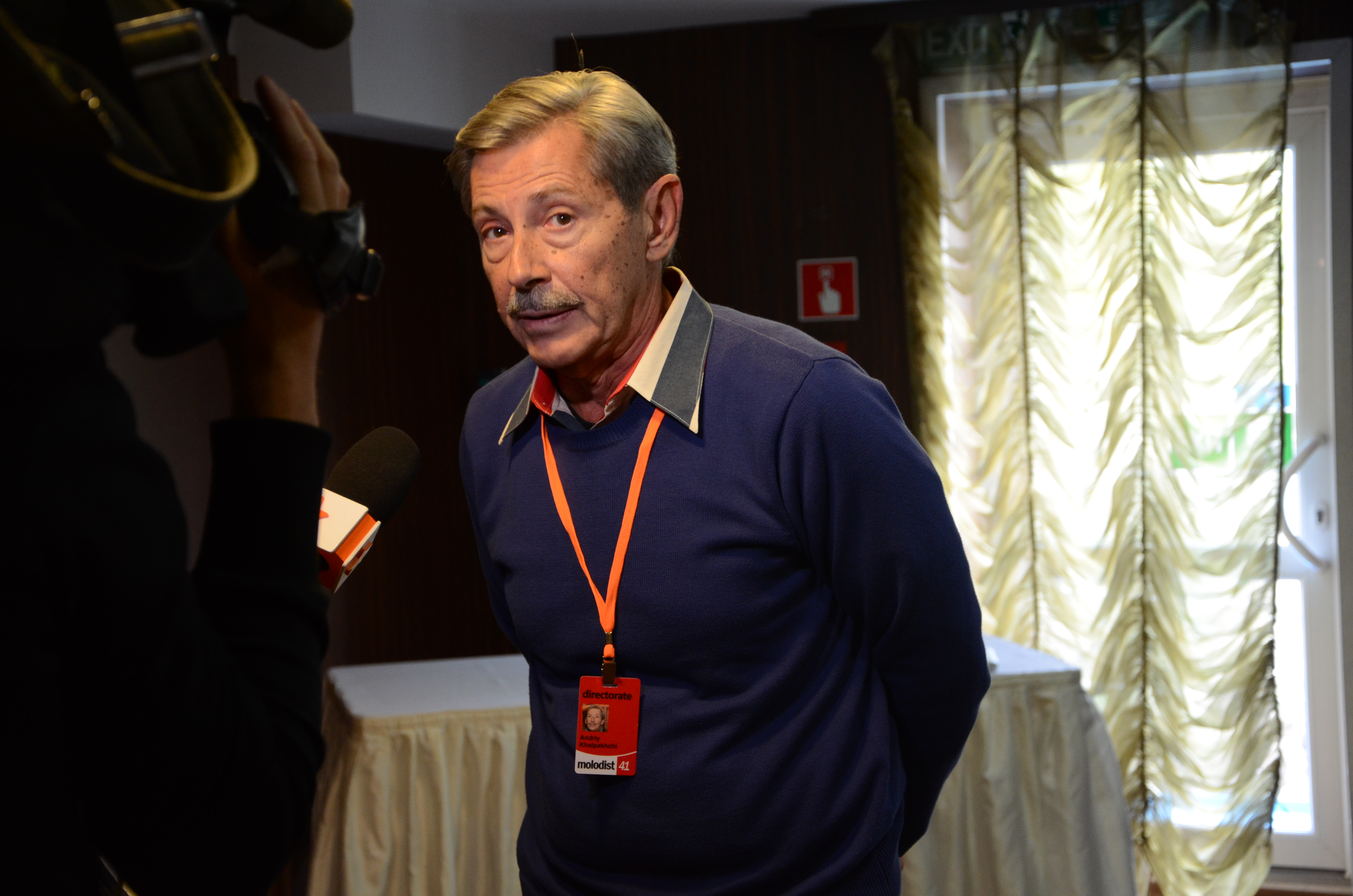 Molodist-41